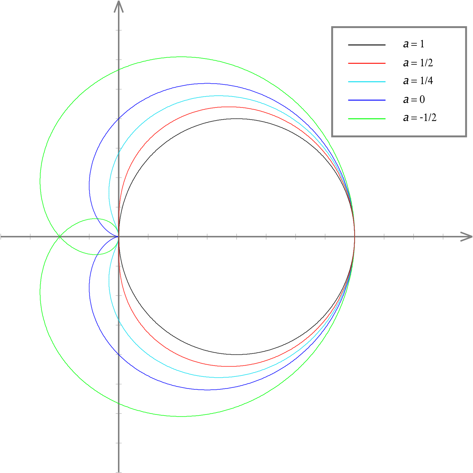 Pedal curves of a circle of center (1,0) and unitary radius, with pole P(a,0). The pedal curve is a limaçon of Pascal, whith different shapes according to the position of the pole. A cardioid is in blue.